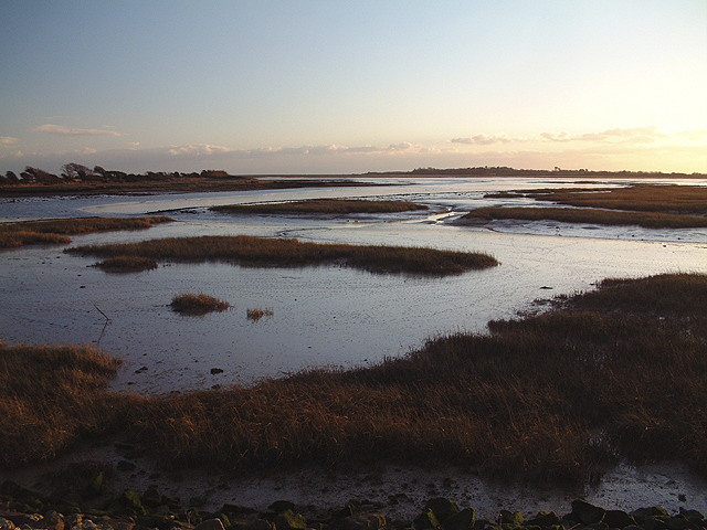 Pagham Harbour. Bird Sanctuary, looking South over the mud flats at low tide.